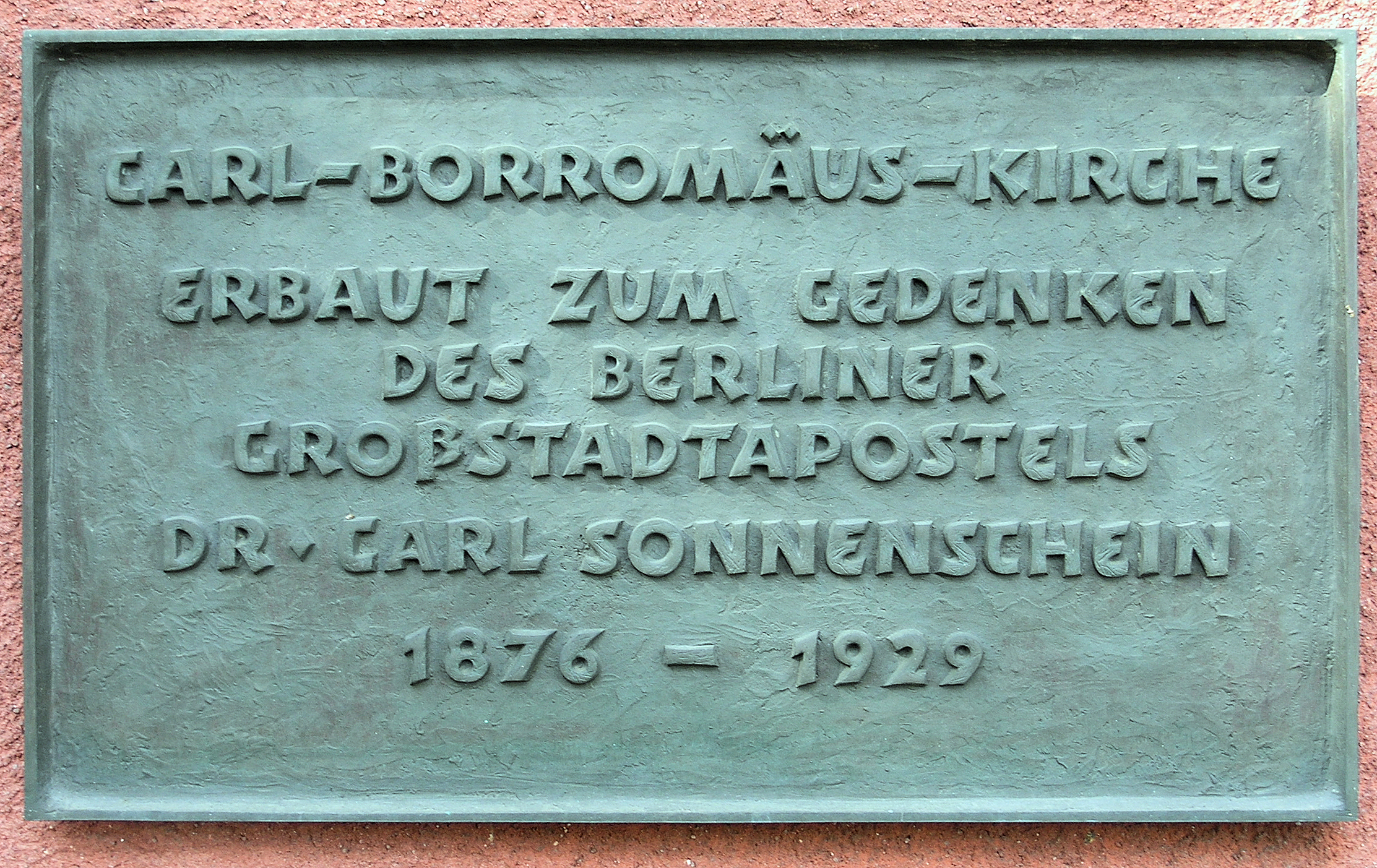 Memorial plaque, Carl Sonnenschein, Delbrückstraße 35, Berlin-Grunewald, Germany Koordinate:52°29′2″N 13°16′54″E / 52.48389°N 13.28167°E